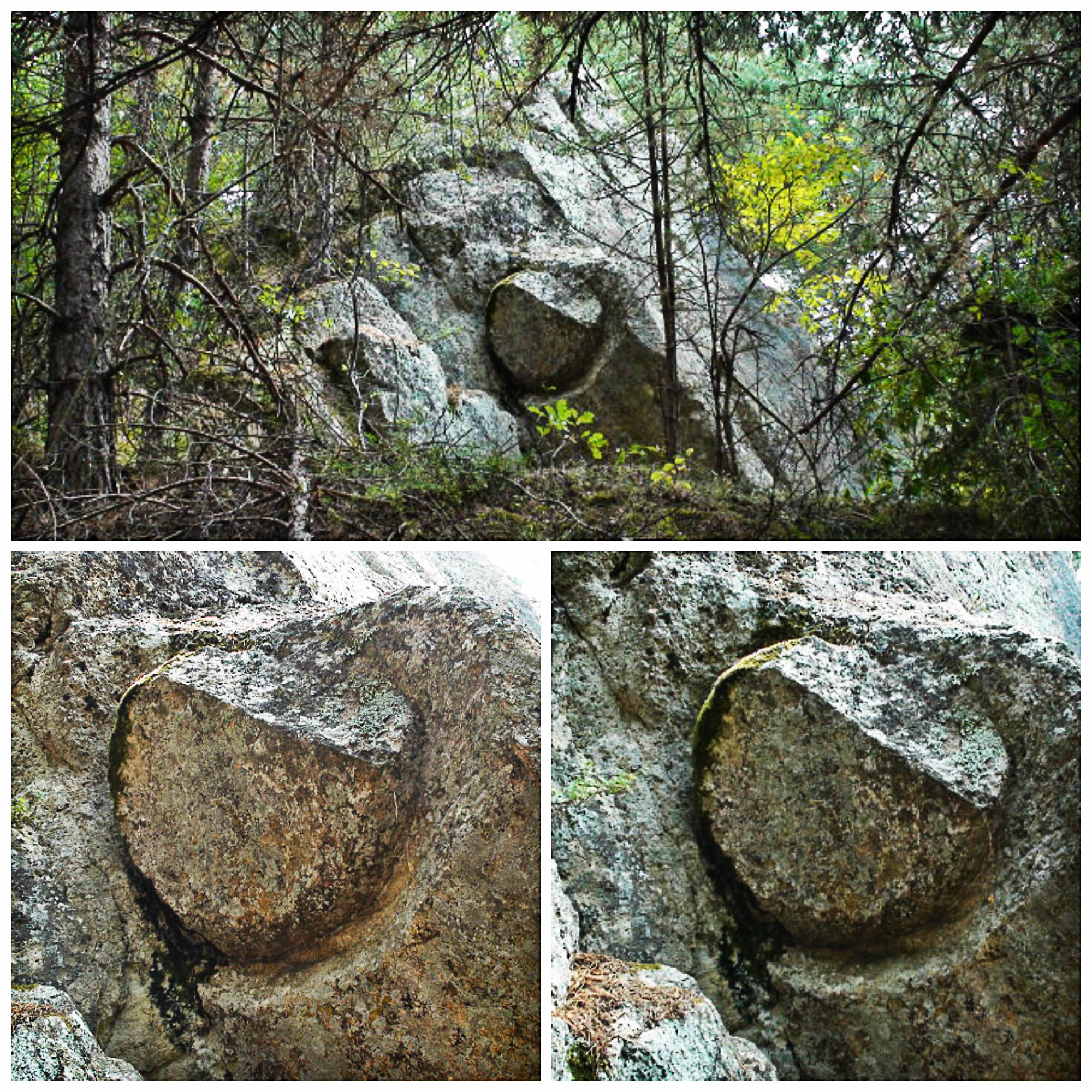 Mala_Garvanitza_Solar_Sanctuary_Beraintzi_BG_2